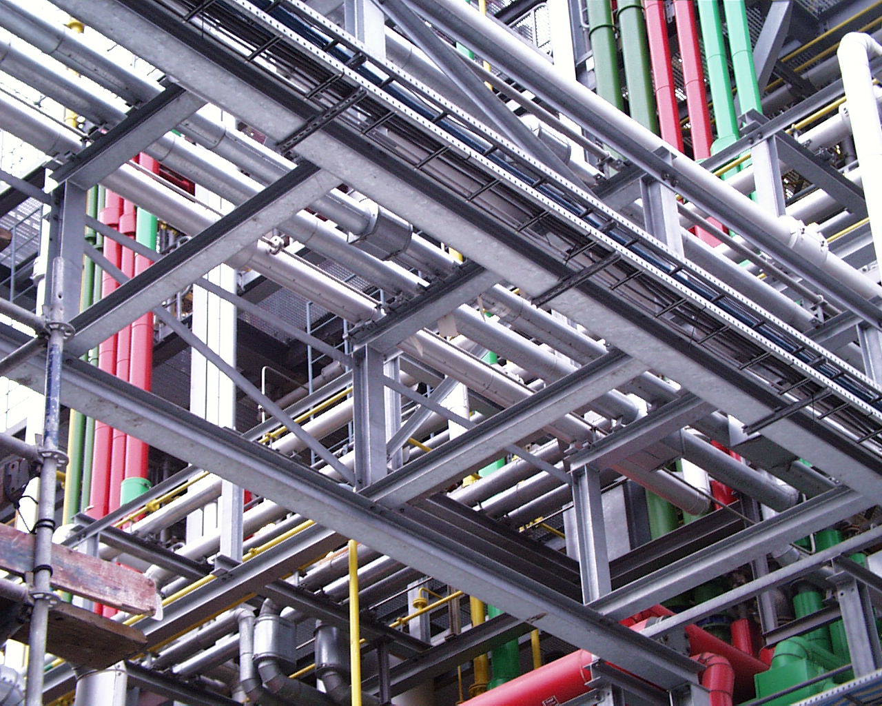 Pipes in a chemical factory